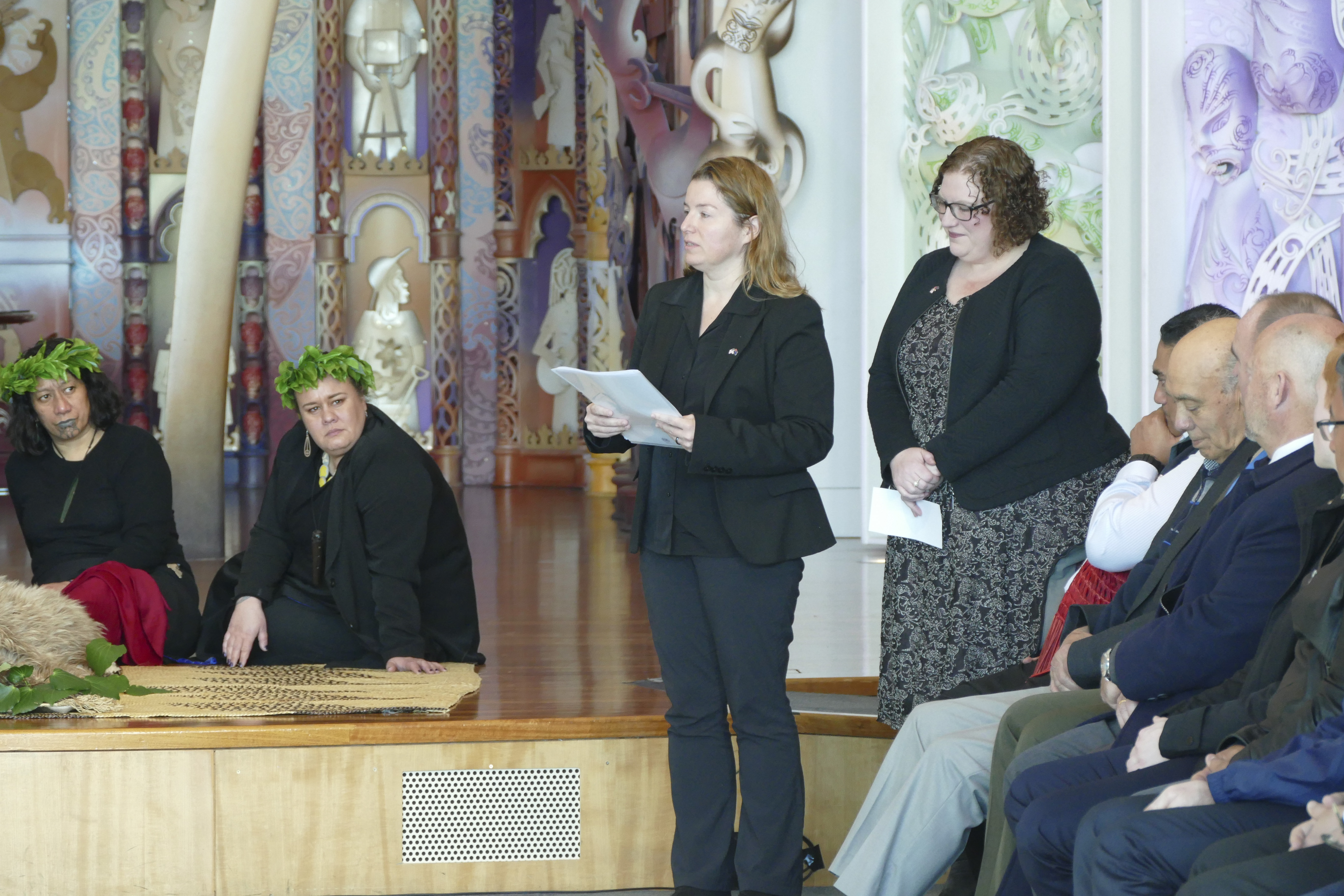 A delegation of Embassy staff participated in a repatriation ceremony at New Zealand’s national museum, Te Papa Tongarewa. The museum leads the Karanga Aotearoa National Repatriation Programme, working with museums around the world to bring home Maori and Moriori skeletal remains that were removed from New Zealand in the 19th Century. The most recent repatriation included 16 items from United States institutions, the deYoung Museum of Fine Arts in San Francisco and the Yale Peabody Museum in Massachusetts, as well as one item from a museum in Germany. The remains were welcomed back to New Zealand in a formal powhiri (Maori welcome ceremony) comprising speeches and singing. Embassy staff were invited to be pall bearers for the service, carrying the ancestral remains, in conservation boxes, onto Te Papa’s marae. Public Affairs Officer Dolores Prin led the Embassy delegation and spoke about New Zealand’s and the United States’ shared cultural values around preservation of heritage, and strong people to people ties.